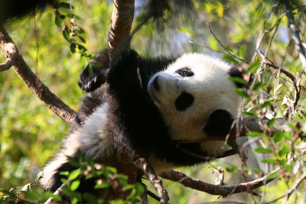 The baby giant panda Su Lin at the San Diego Zoo, taken and uploaded by Sepht.